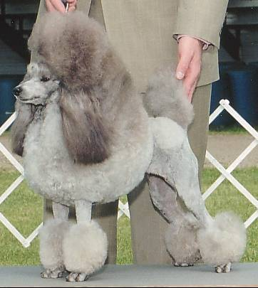 A silver Miniature Poodle stacked.